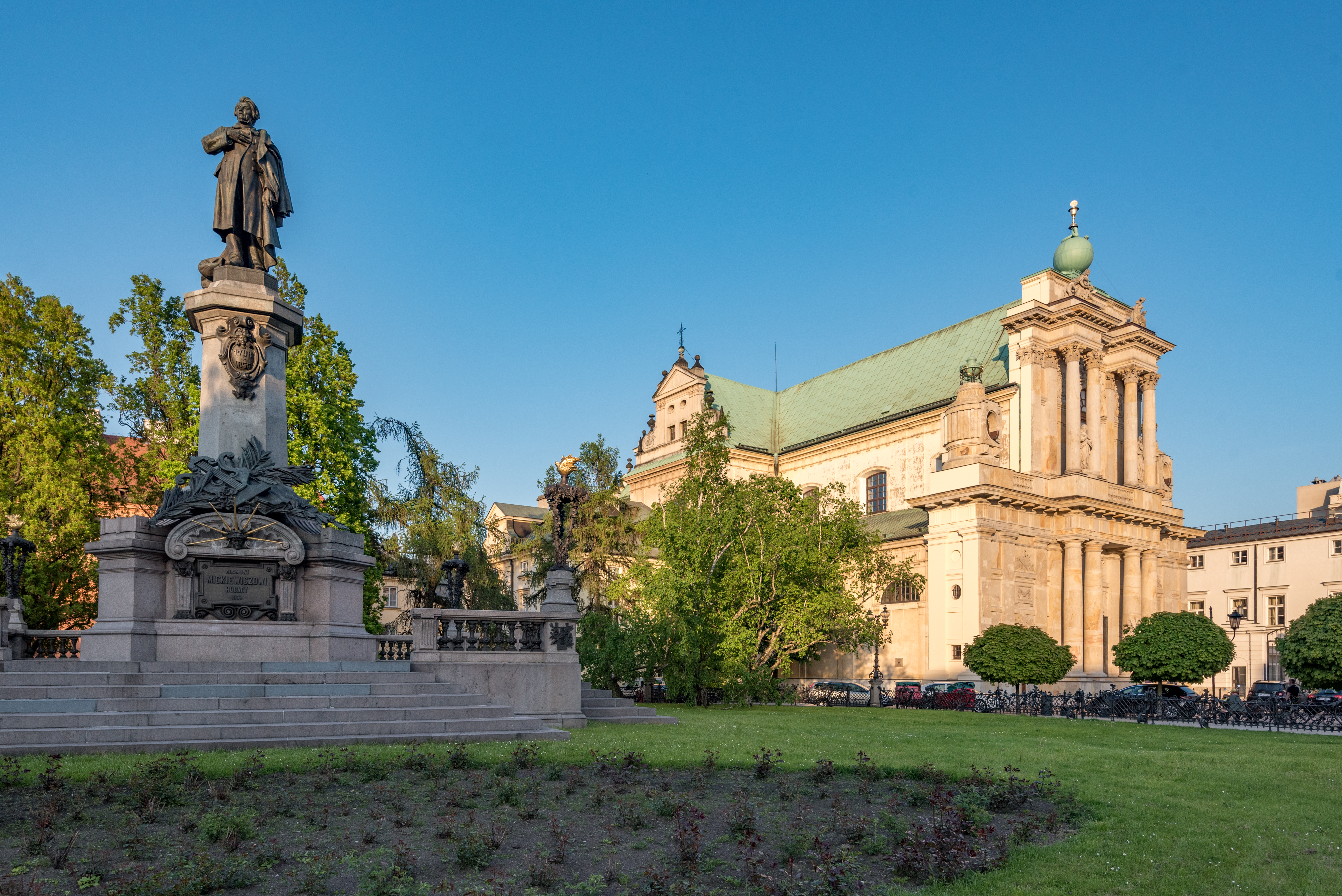 Warszawa, ul. Krakowskie Przedmieście 54